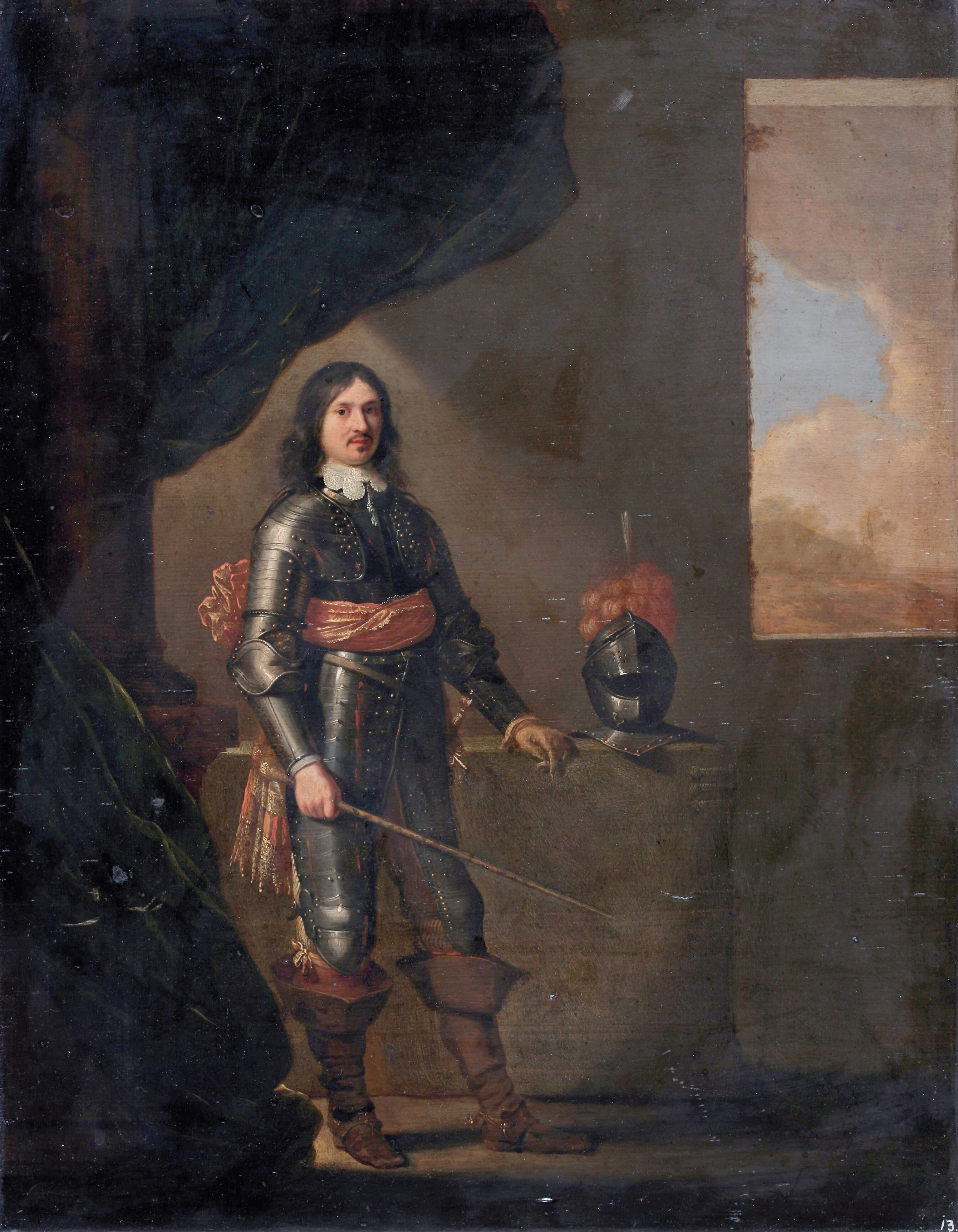 Wilhelm Vincent van Wyttenhorst (1613-1674) oil on panel 46 x 35 cm 1644